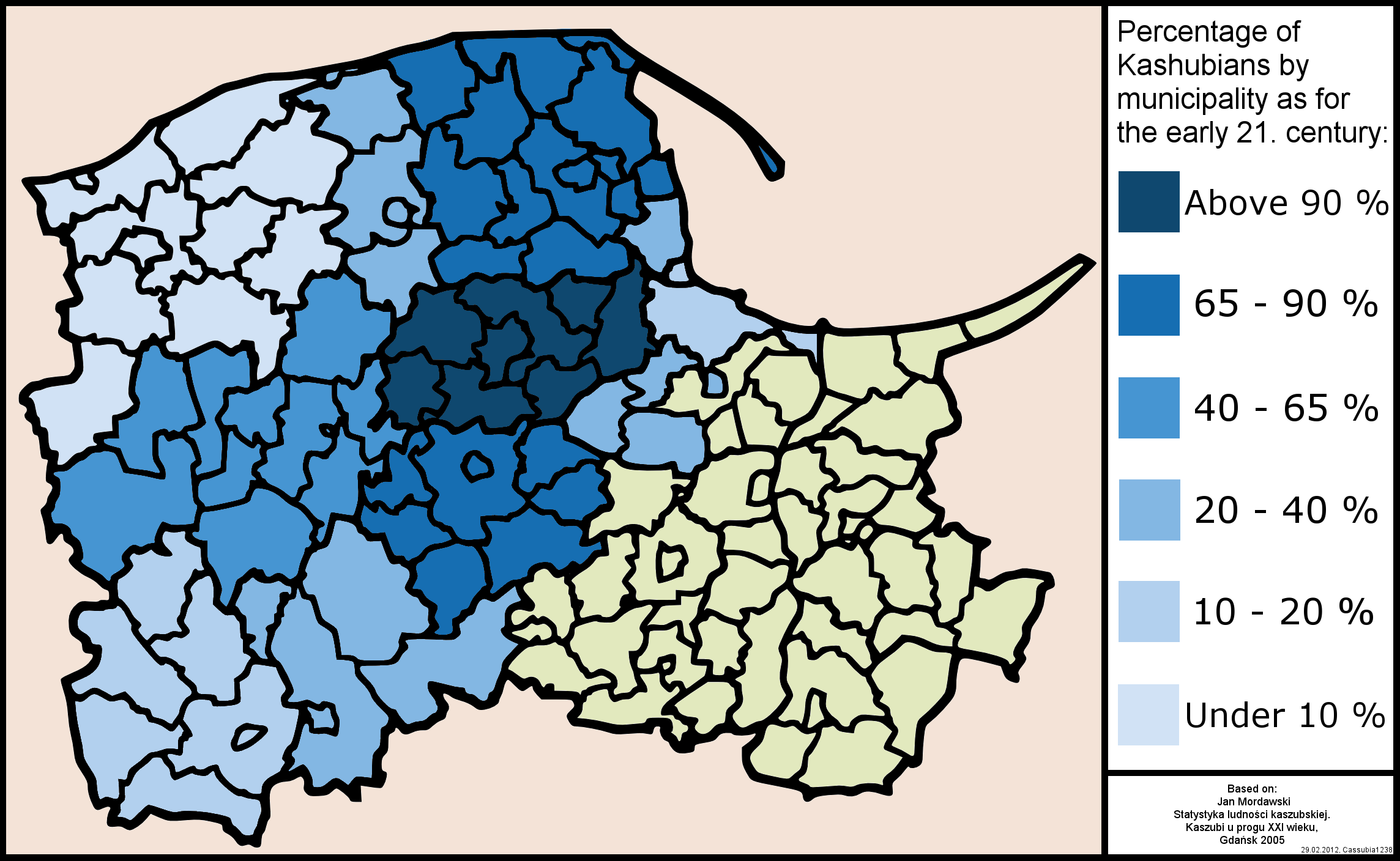 Distribution of Kashubians in the Pomeranian voivodship